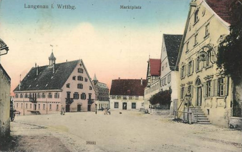 Langenau was ruled by the Free Imperial City of Ulm for some 425 years until the mediatization of Ulm in 1802. Postcard issued c. 1910.